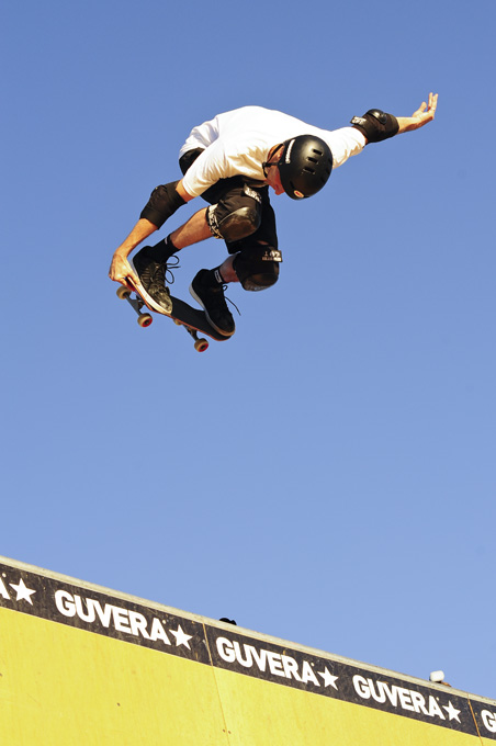 Tony Hawk at the Big Day Out Festival 2012.